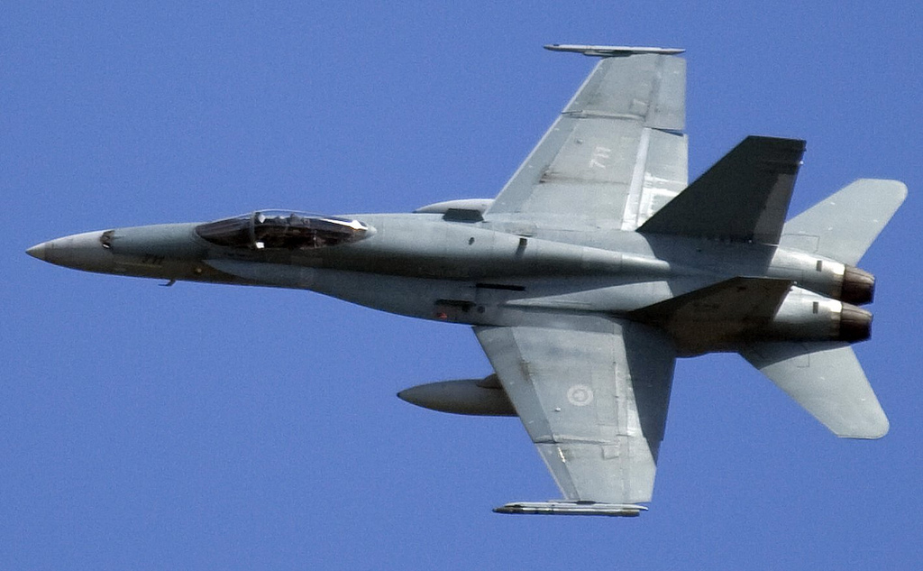 CF-188A banking away from the crowd at the 2009 Bagotville International Airshow